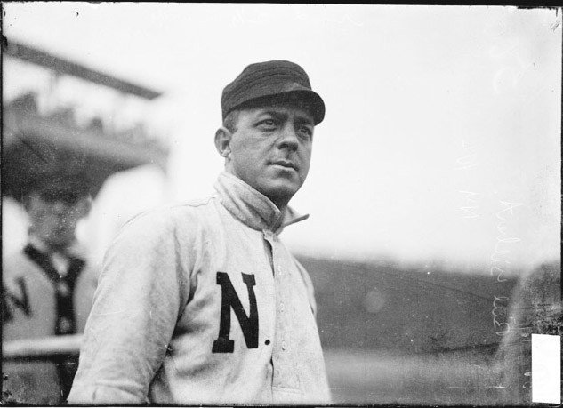 [New York Giants second baseman Billy Gilbert, standing on the field at West Side Grounds]. Chicago Daily News, Inc., photographer. CREATED/PUBLISHED 1905. SUMMARY Portrait of second baseman Billy Gilbert, National League's New York Giants baseball player, standing on the field at West Side Grounds, which was located between West Polk Street, South Wolcott Avenue (formerly Lincoln Street), West Taylor Street, and South Wood Street, in the Near West Side community area of Chicago, Illinois. An unidentified New York player is standing behind him holding a bat. The New York Giants were the 1905 World Series Champions. NOTES This photonegative taken by a Chicago Daily News photographer may have been published in the newspaper. Cite as: SDN-003768, Chicago Daily News negatives collection, Chicago History Museum. SUBJECTS Gilbert, Billy. New York Giants (Baseball team) National League of Professional Baseball Clubs West Side Grounds (Chicago, Ill.) Baseball players--New York (State)--New York--1900-1909. Near West Side (Chicago, Ill.)--1900-1909. Chicago (Ill.)--1900-1909. Portraits. Dry plate negatives. Gelatin dry plate negatives. United States--Illinois--Cook County--Chicago. MEDIUM 1 negative : b&w, glass ; 5 x 7 in. REPRODUCTION NUMBER SDN-003768 REPOSITORY Chicago History Museum, 1601 North Clark Street, Chicago, IL 60614-6038. DIGITAL ID (original negative) ichicdn s003768